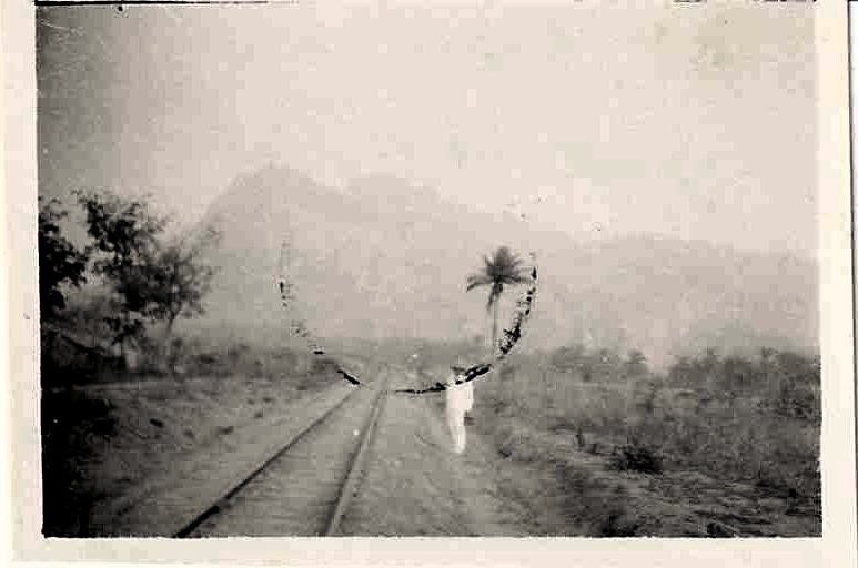 This picture has been taken by a engineer of railways company and shows the hills and the track leaving Savè station